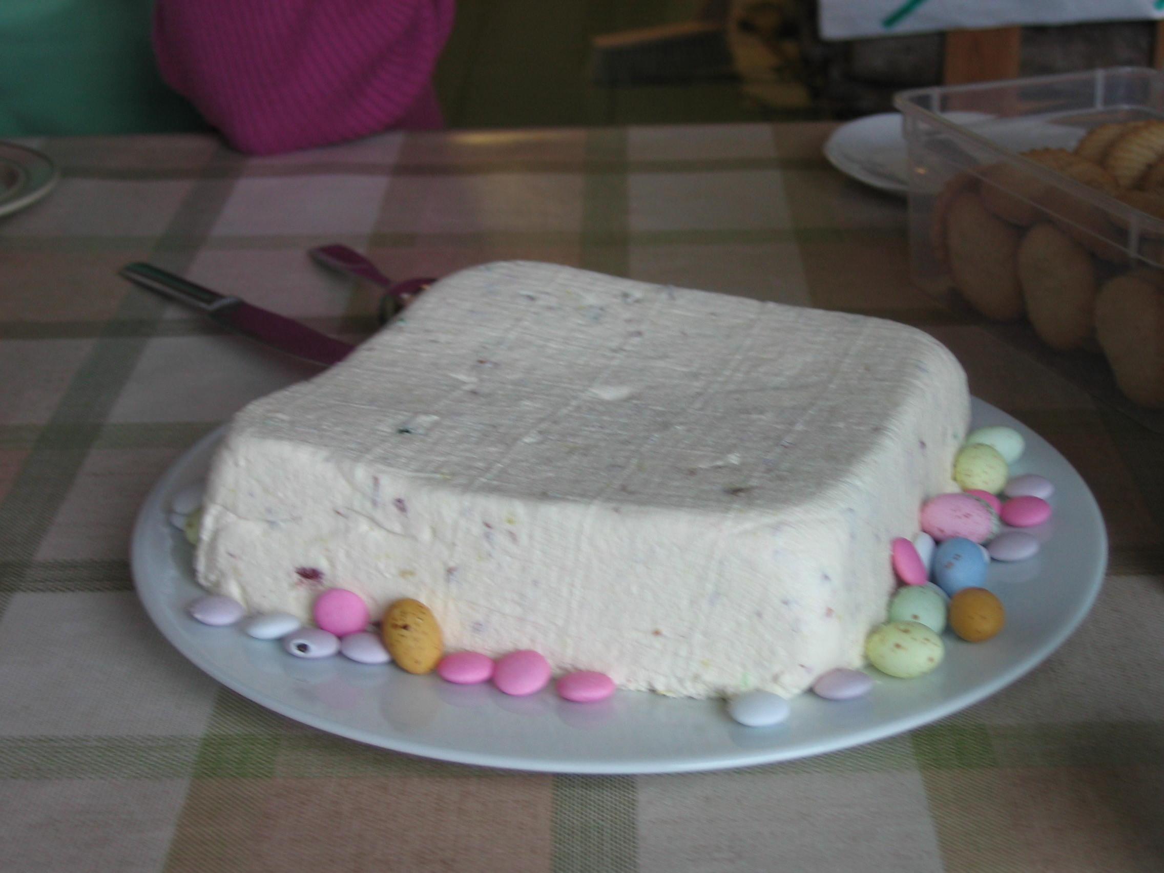 Pasha, traditional sweet Easter food.